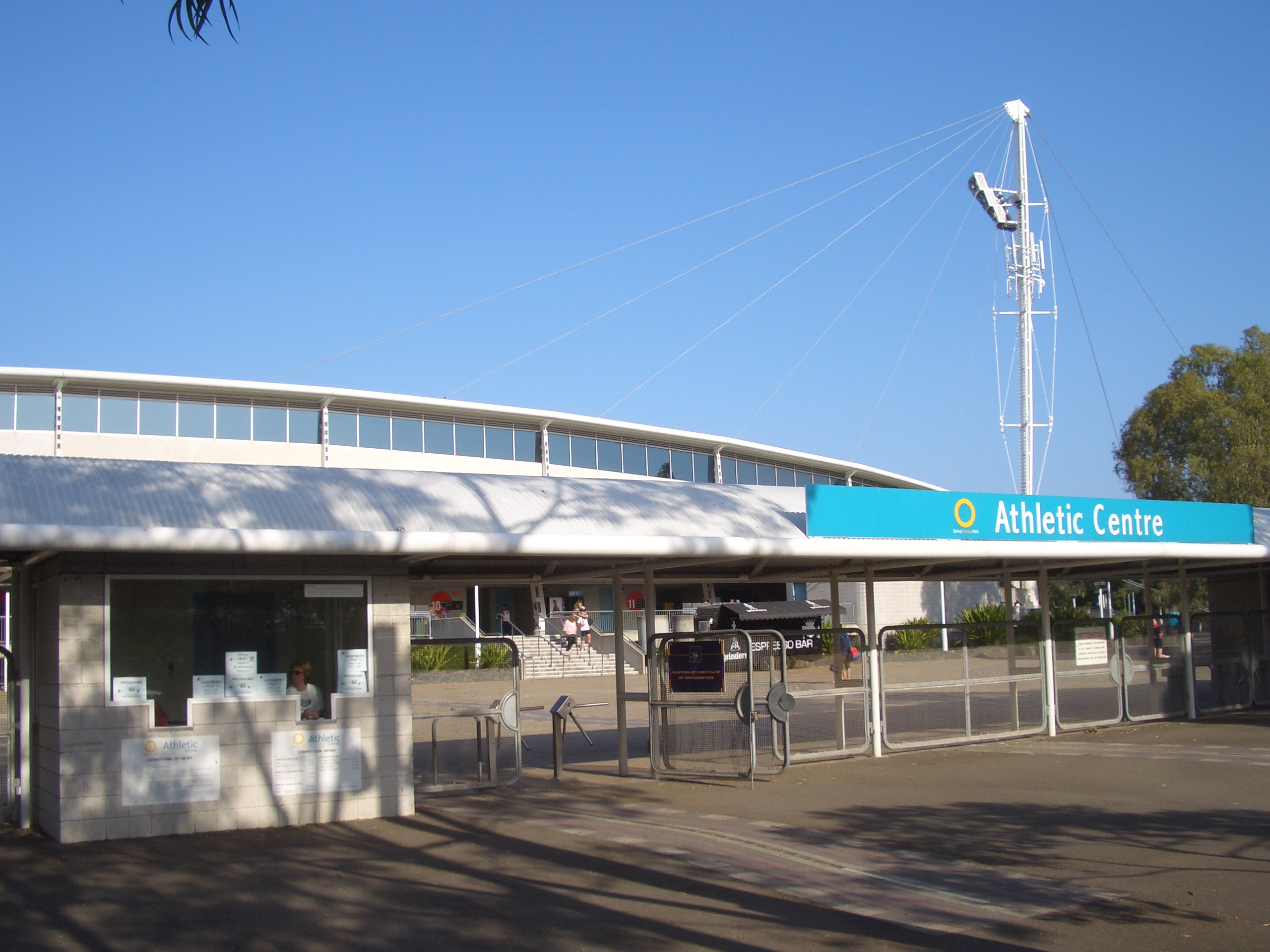 Sydney Olympic Park, Athletics Centre